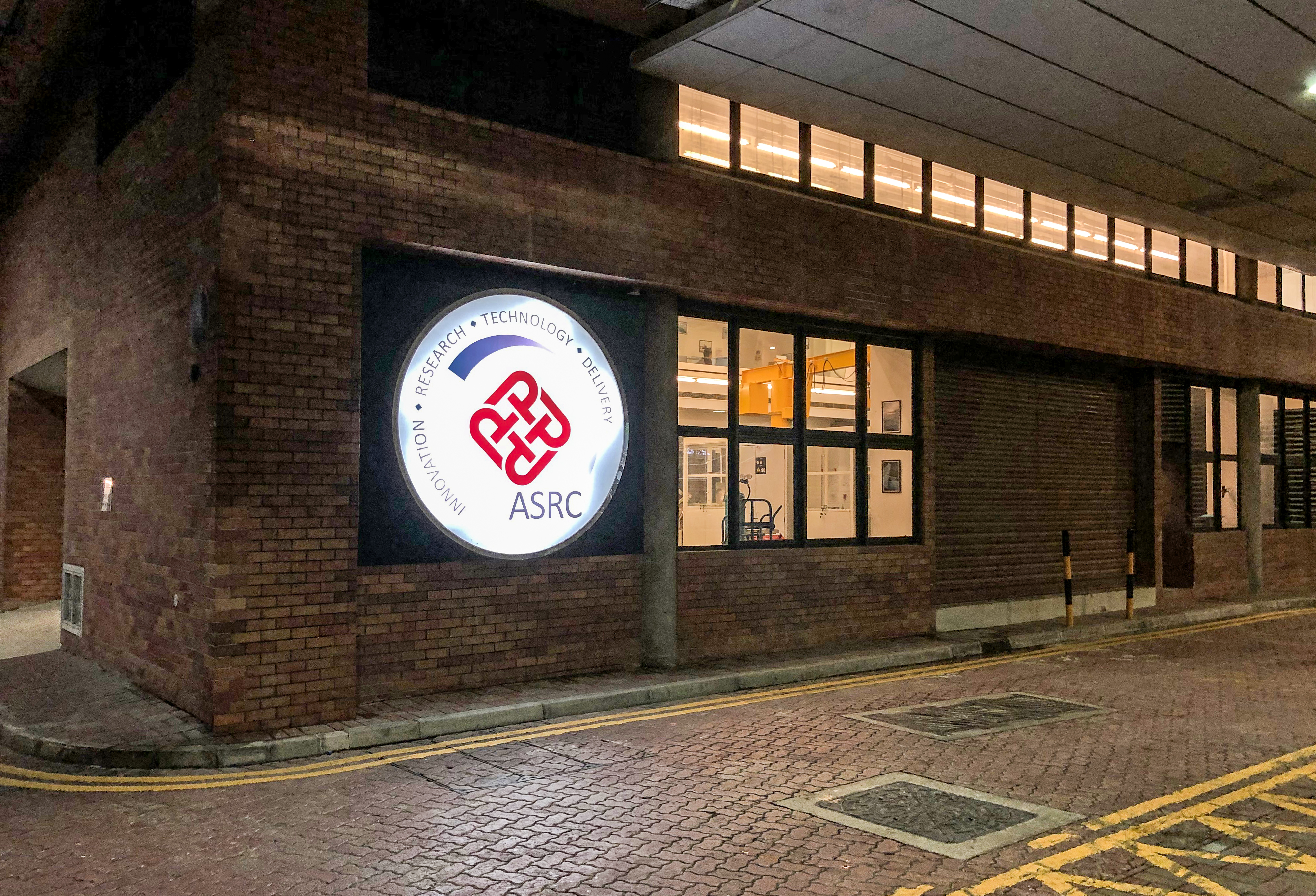 Is this the "ground floor"?